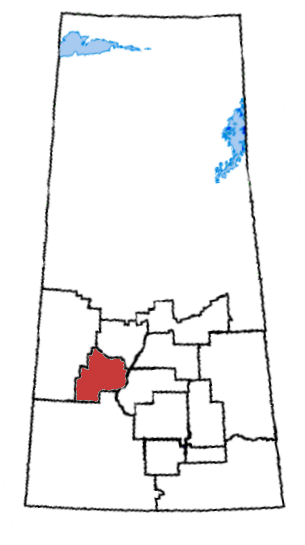 Map of the Saskatoon—Rosetown—Biggar electoral district. Based on Earl Andrew's maps, created by SimonP.